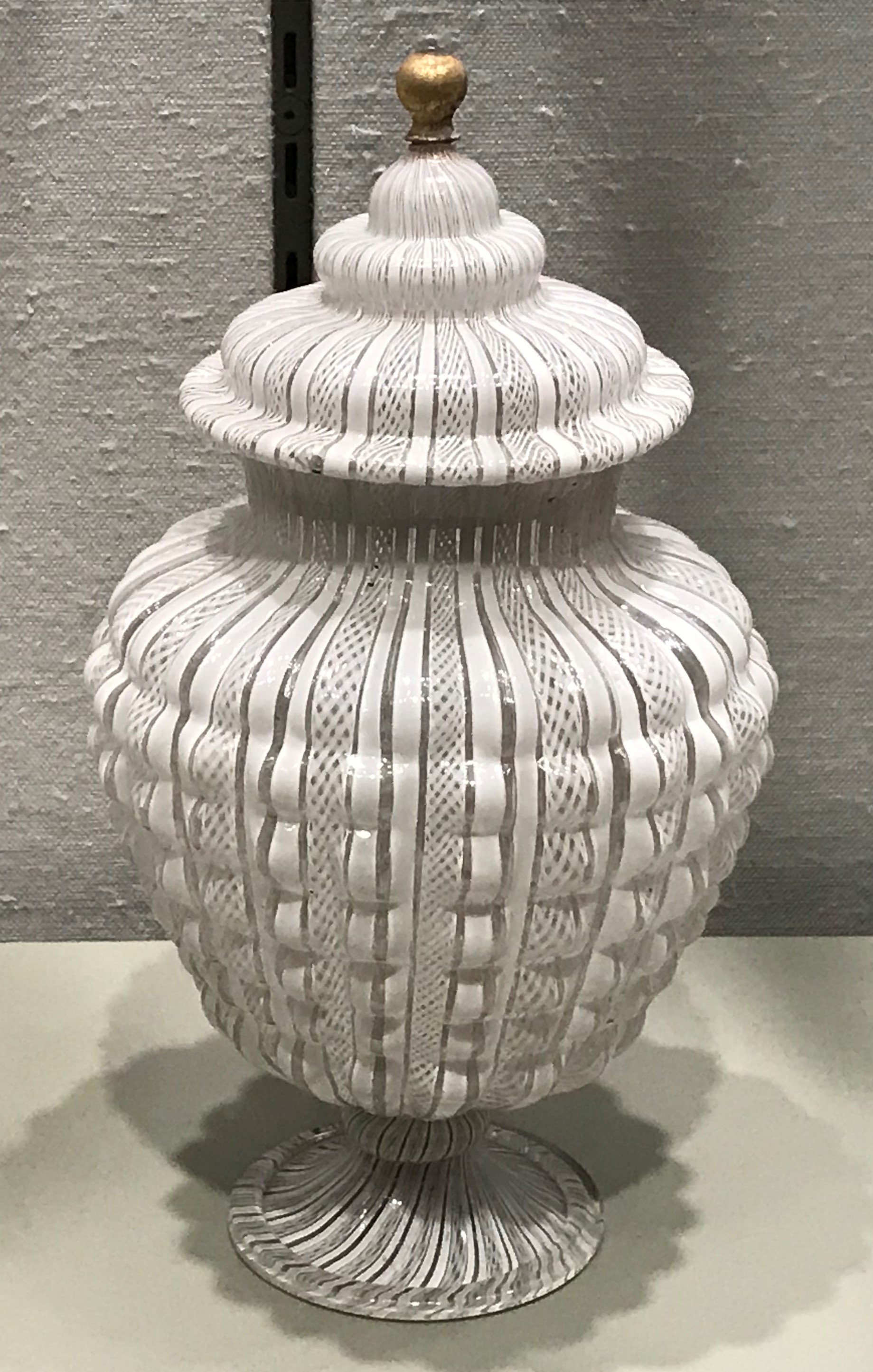 This a Venetian glass jar made in the filigree style around 1600-1650. It is on display in the Corning Museum of Glass.